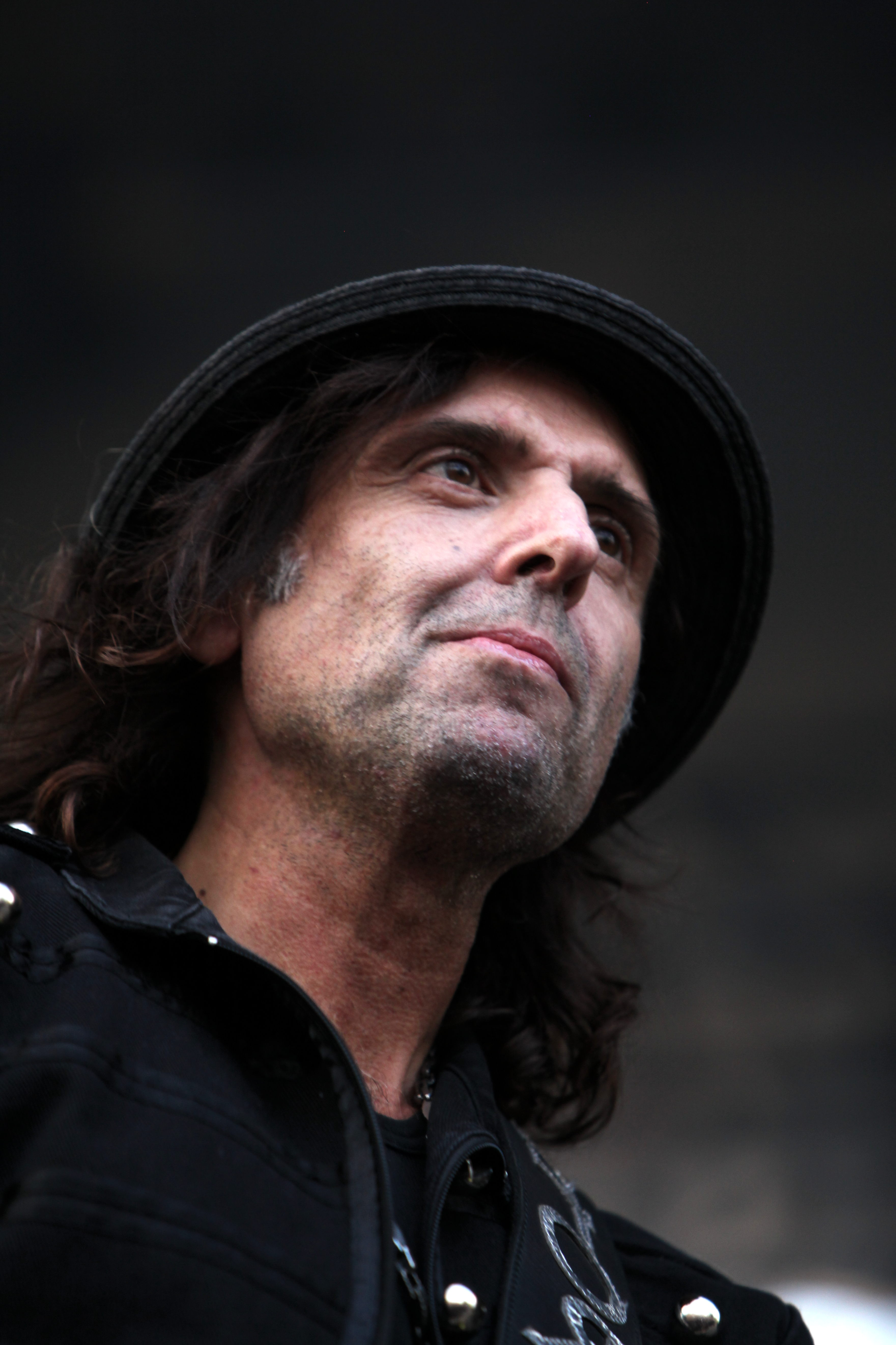 Motörhead at the Eurockéennes de Belfort 2011 The making of this document was supported by Wikimedia CH. (Submit your project!) For all the files concerned, please see the category Supported by Wikimedia CH.